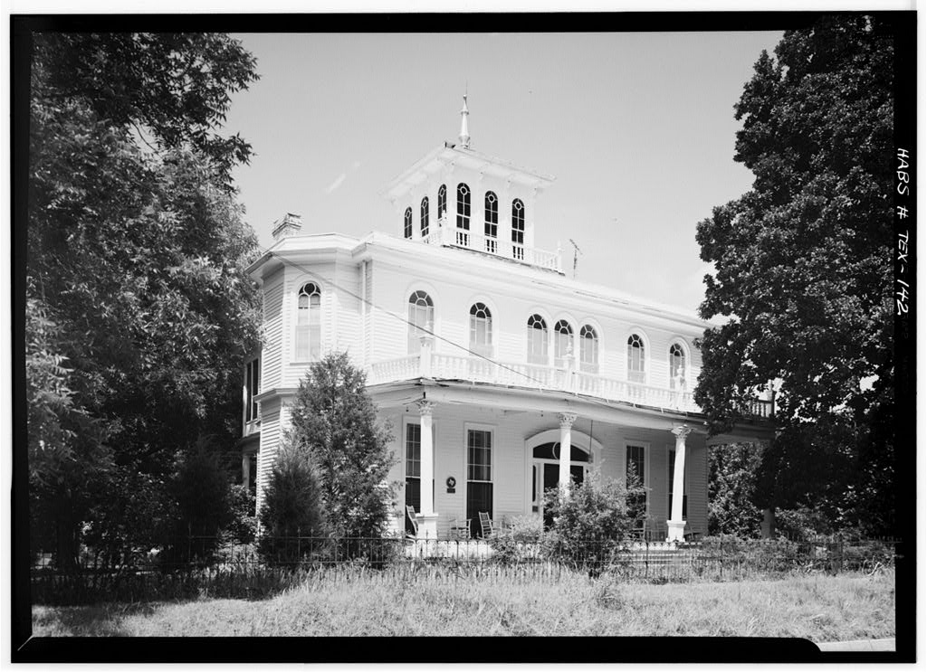 House of the Seasons / Benjamin Epperson / McNutt House, Jefferson, Texas. Listed on the national Register of Historic Places. Historic American Buildings Survey—HABS image.